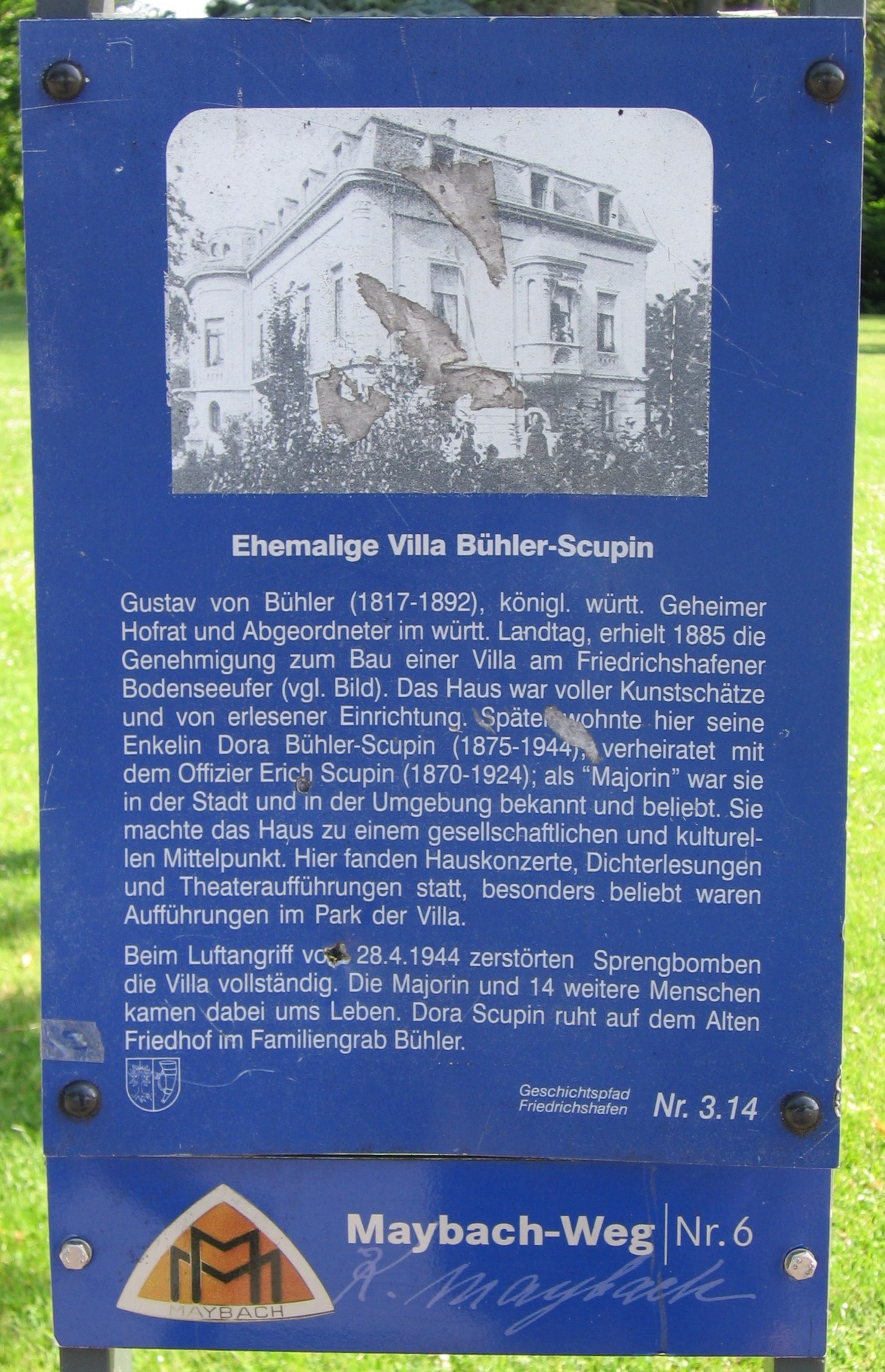 Germany - Baden-Württemberg - Bodenseekreis - Friedrichshafen: "Maybach-Weg", station 6, information about former 'villa Bühler-Scupin'